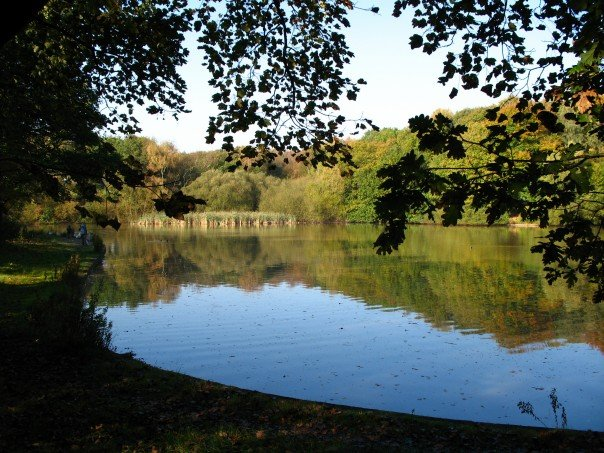 The Golly Pond, Heaton Park